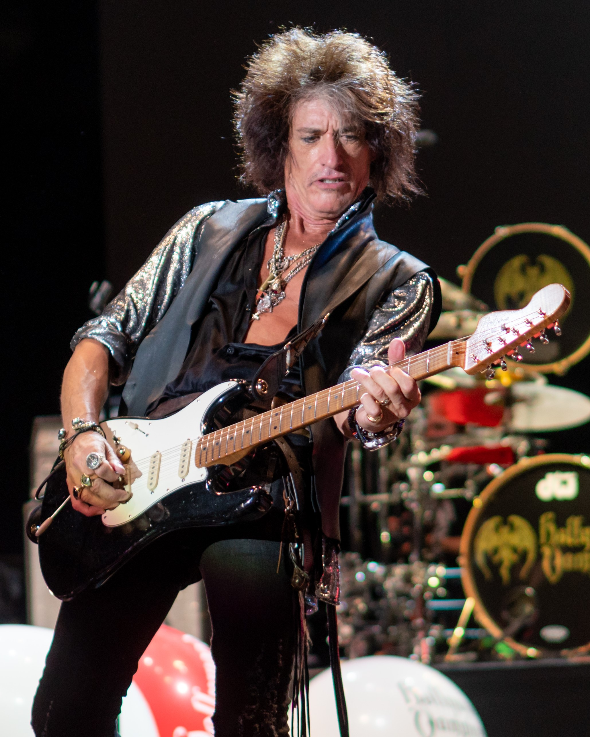 HollywoodVampsSSe200618-151